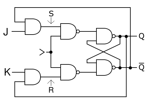 JK flip flop internal logic/Rafitry ny flip-flop JK